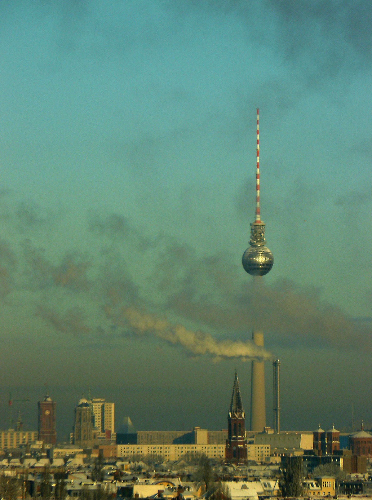 Berlin TV tower viewed from the Estrel Hotel.